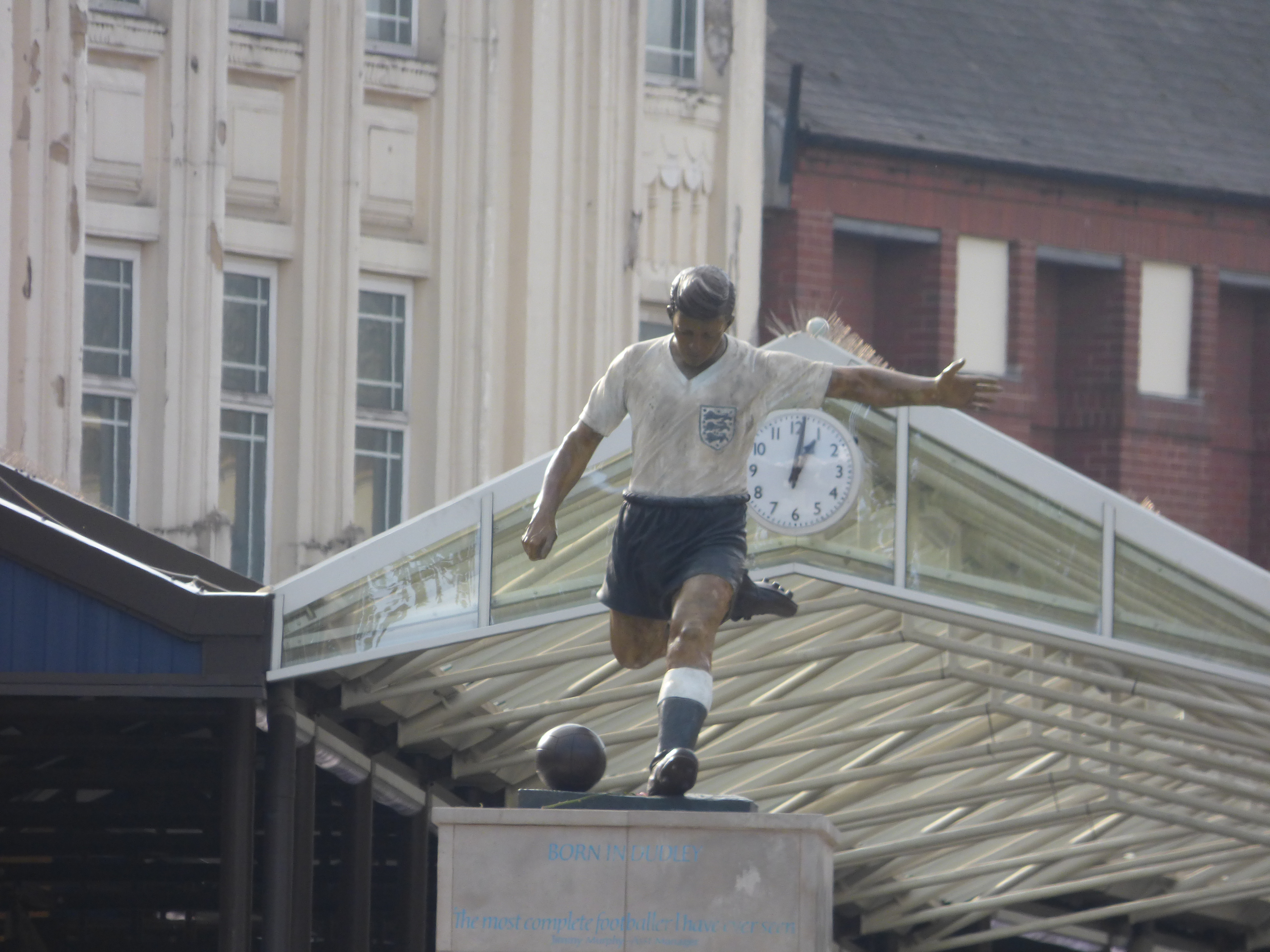 The statue of the footballer Duncan Edwards returned and restored to the High Street in Dudley. It was rededicated in 2015. A Manchester United and England player. Born in 1936. Died in the Munich air disaster of 1958. A blue plaque for him was unveiled in Priory Park by Sir Bobby Charlton in October 2016. Near the Dudley Market Place. Originally sculpted by James Butler in 1999.